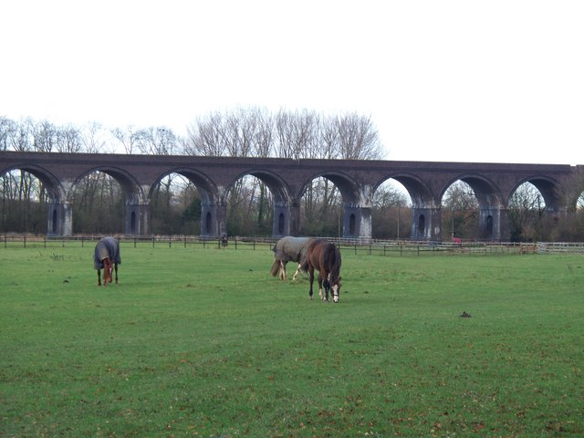 Stanway viaduct Seen from the bridleway. Rails have been re-laid on the viaduct and the Gloucestershire Warwickshire Railway hope to be running steam trains as far as Broadway by 2011.